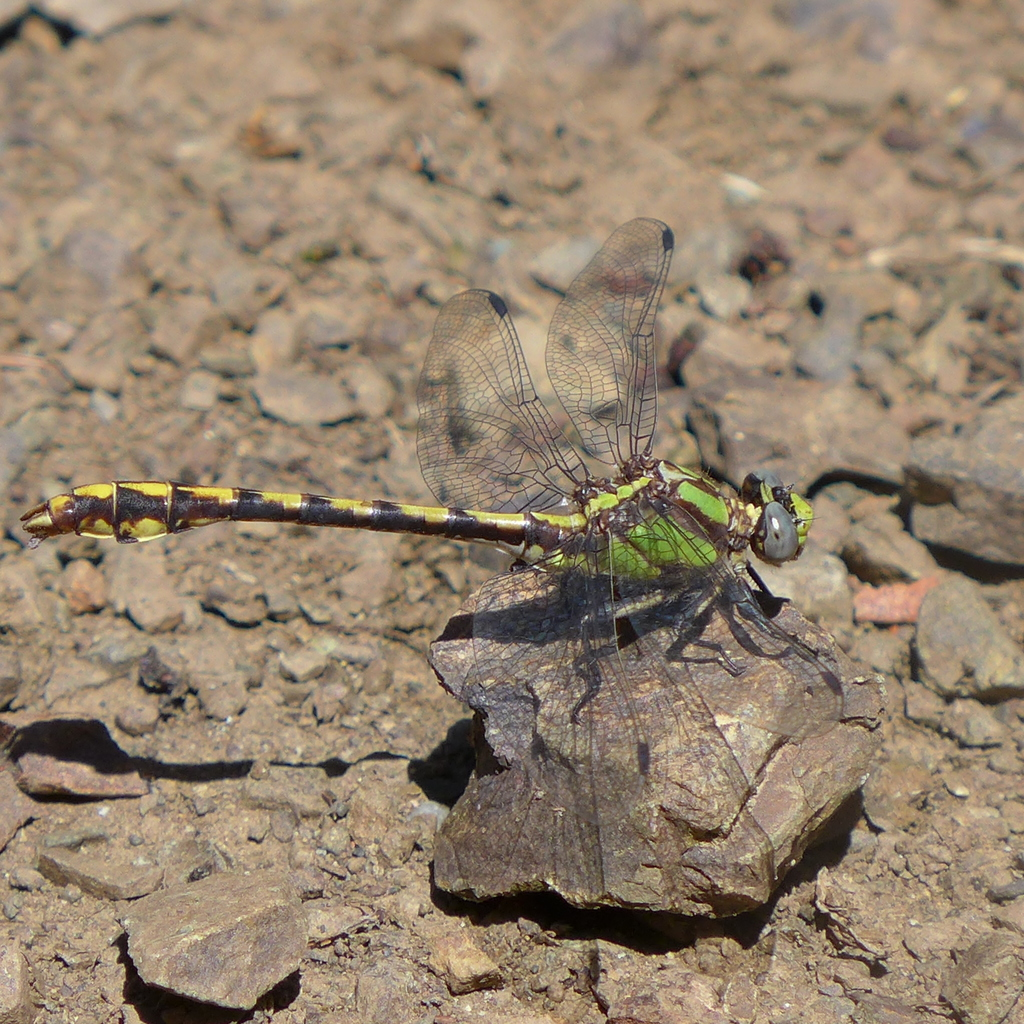 Bison Snaketail (Ophiogomphus bison), Sugar Loaf Ridge State Park